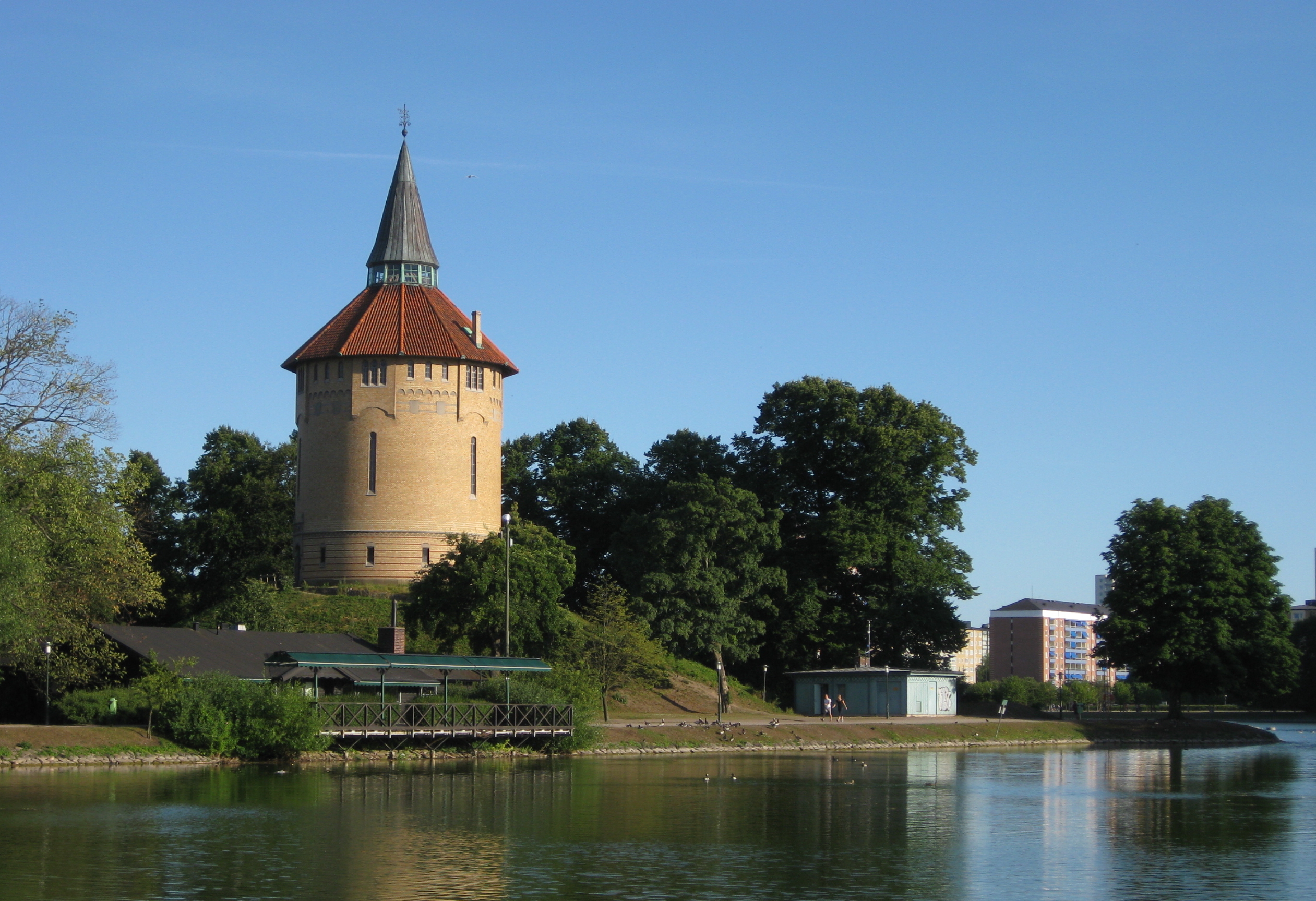 The main dam with the old watertower in Pildammsparken, Malmö, Sweden